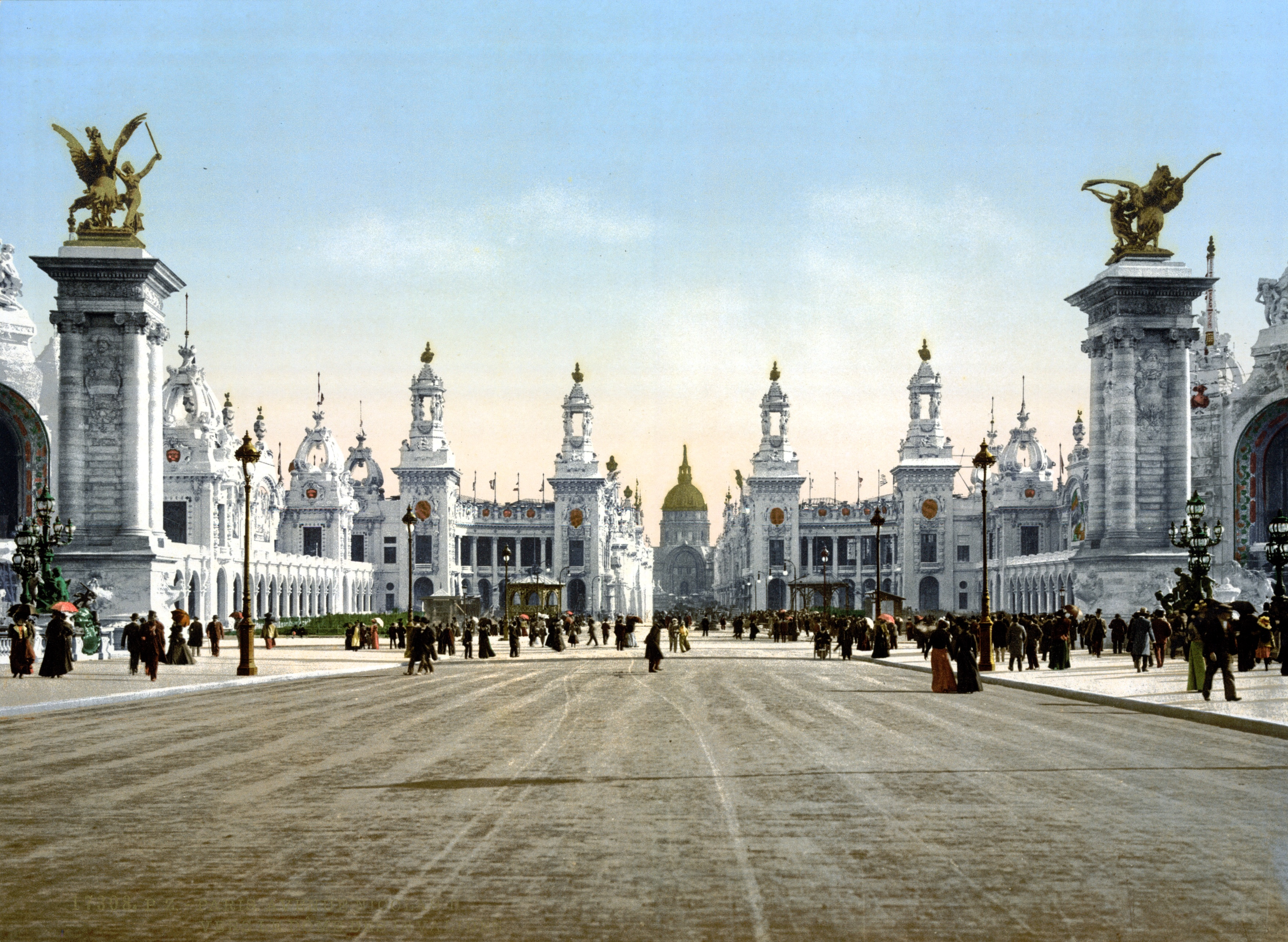 Exposition Universal, 1900, Paris, France